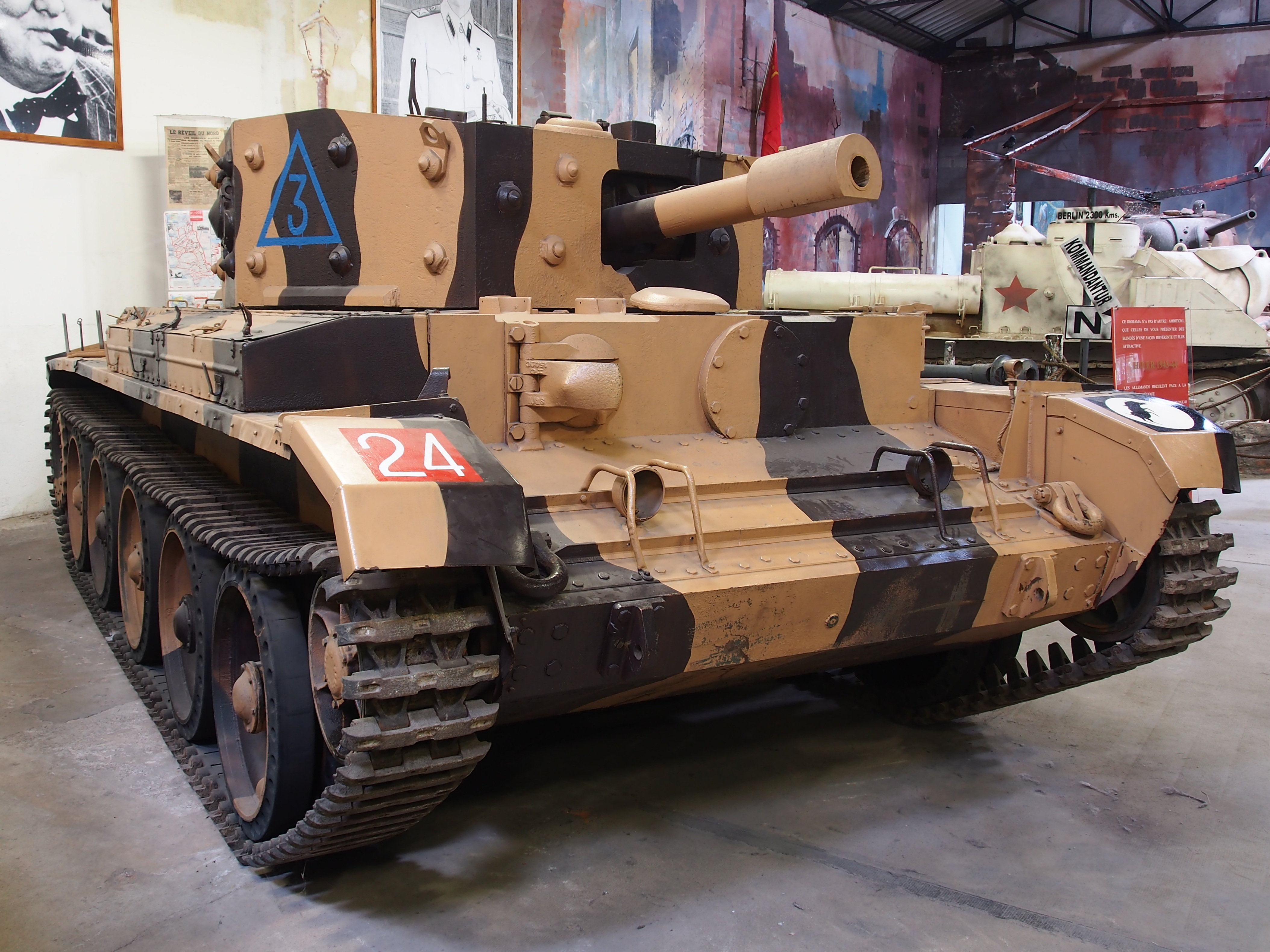 Photographed in the Musée des Blindés, France.